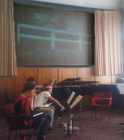 Viktor Ekimovsky. Cien Andalou (soundtrack) composition 92, Saint-Petersbourg, union de Compositeurs, 26 iuni 2010